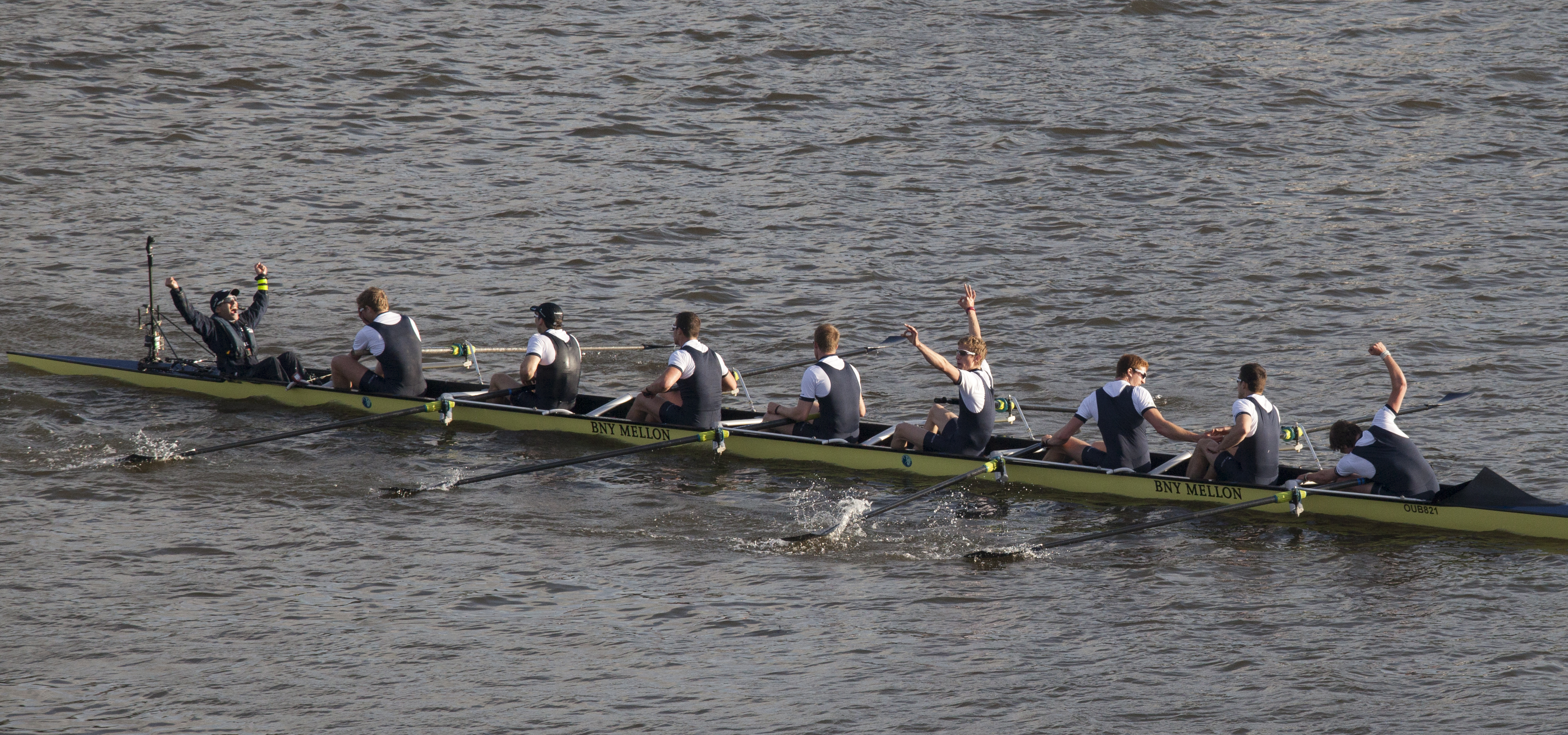 Image of Oxford & Cambridge Boat Race 2015, illustrating Oxford's Men's VIII celebrating victory.